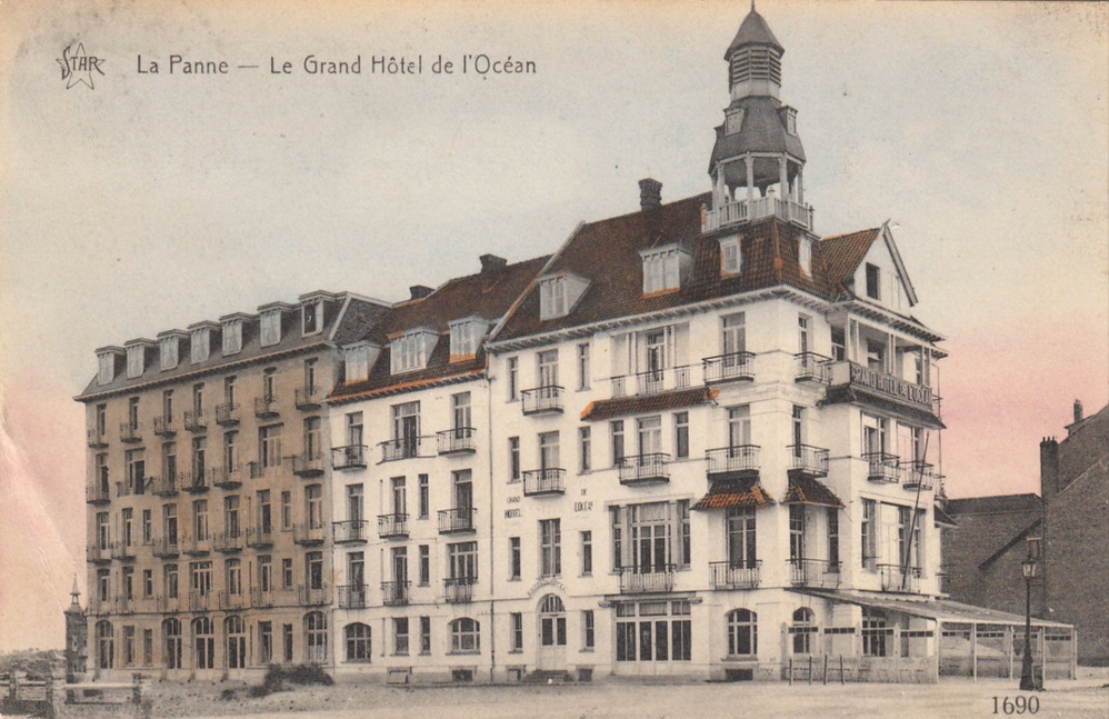 Sight of the "Grand hotel de l'Ocean" in La Panne (Belgium); Siege of a Red Cross field hospital (so called 'ambulance') during WWI.